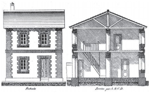 Type 1 house design for reconstruction of the most damaged villages after the Andalusian earthquake of 1884